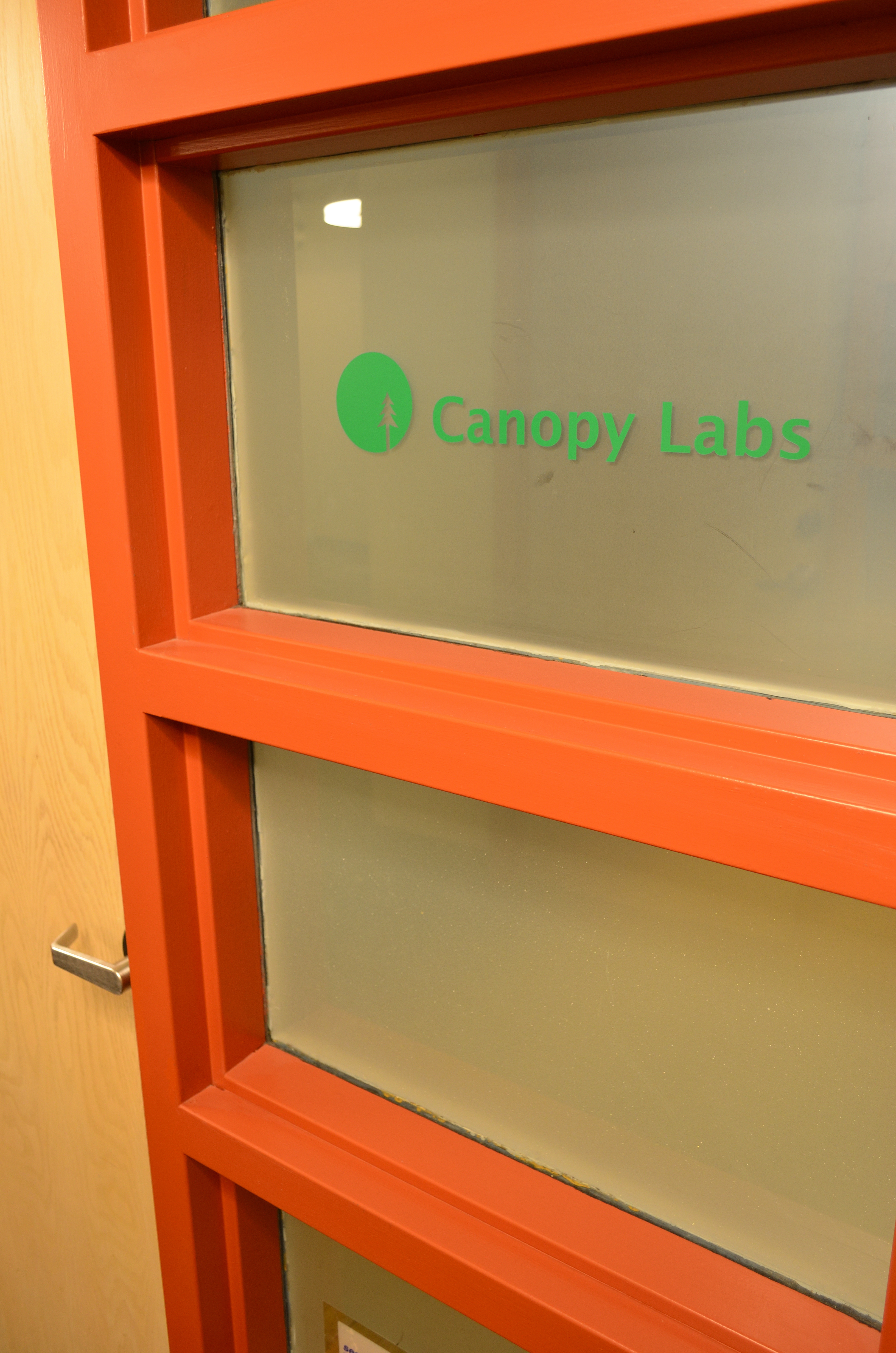 Canopy Labs - 130 Spadina Avenue, Toronto, ON M5V 1X9